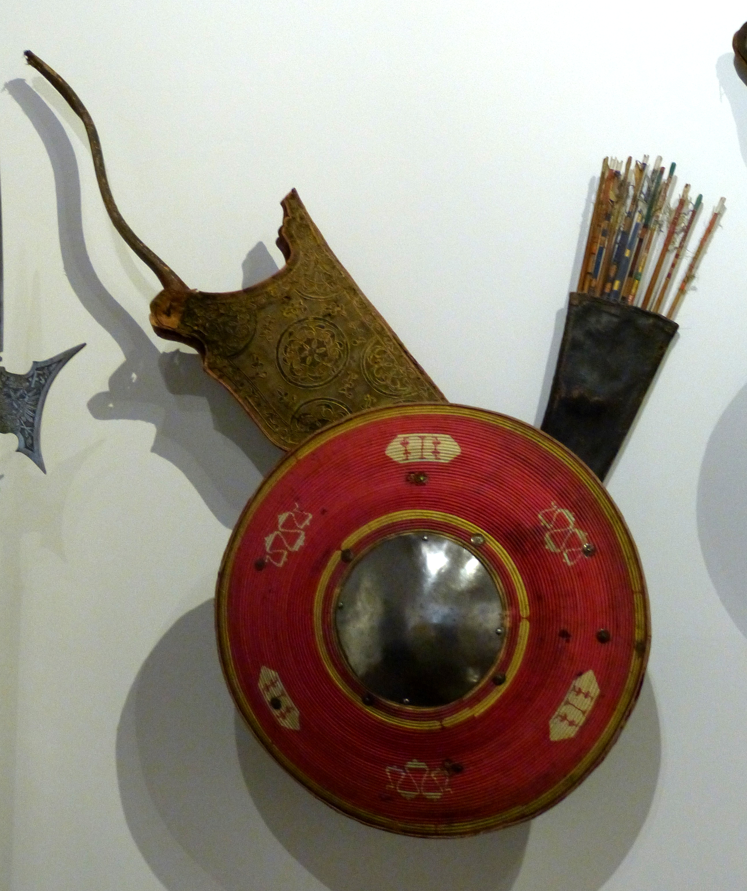 Ambras castle ( Tyrol ). Armoury: Ottoman round shield, bow and quiver ( 16th century )